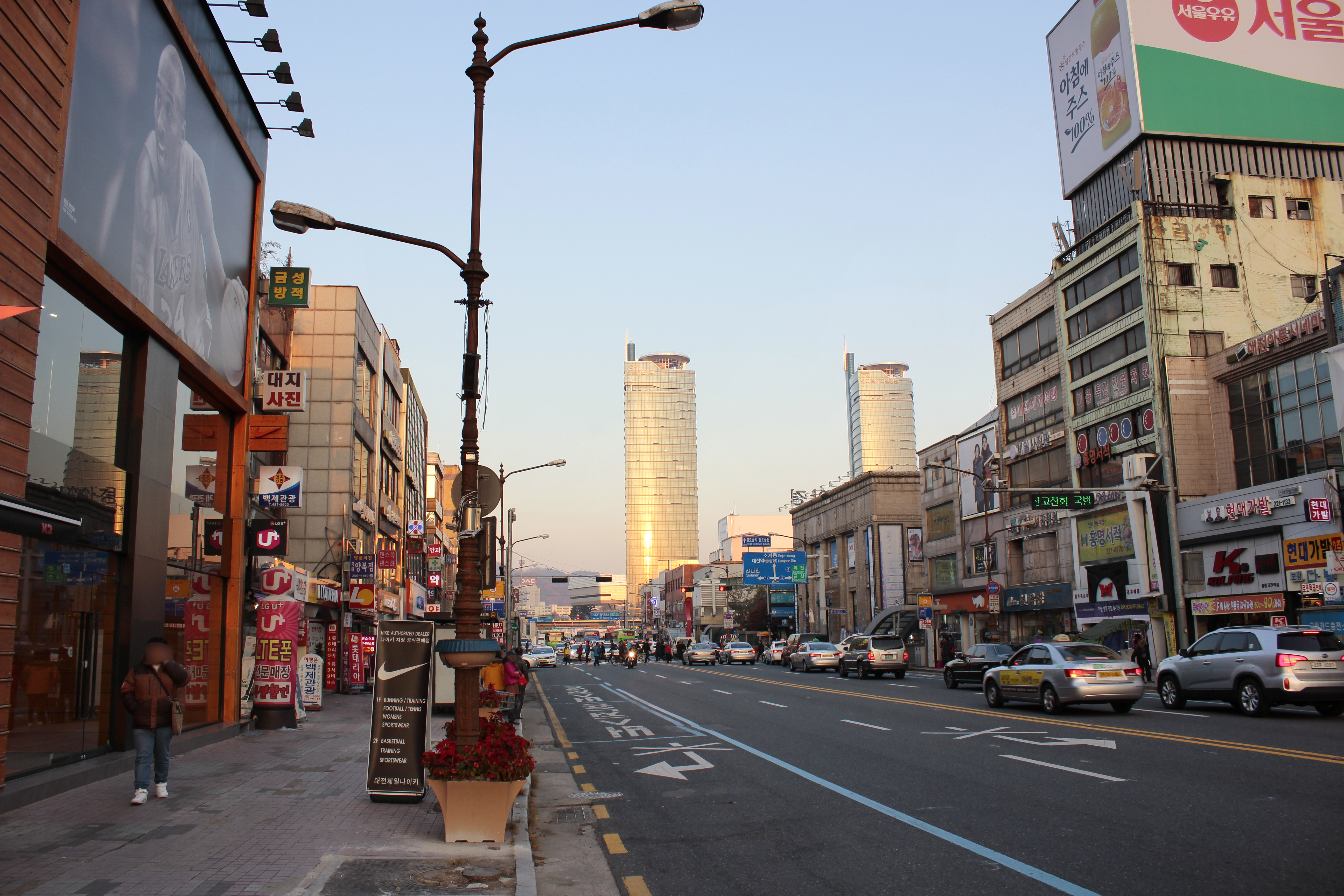 Jungang-ro, Daejeon, South Korea